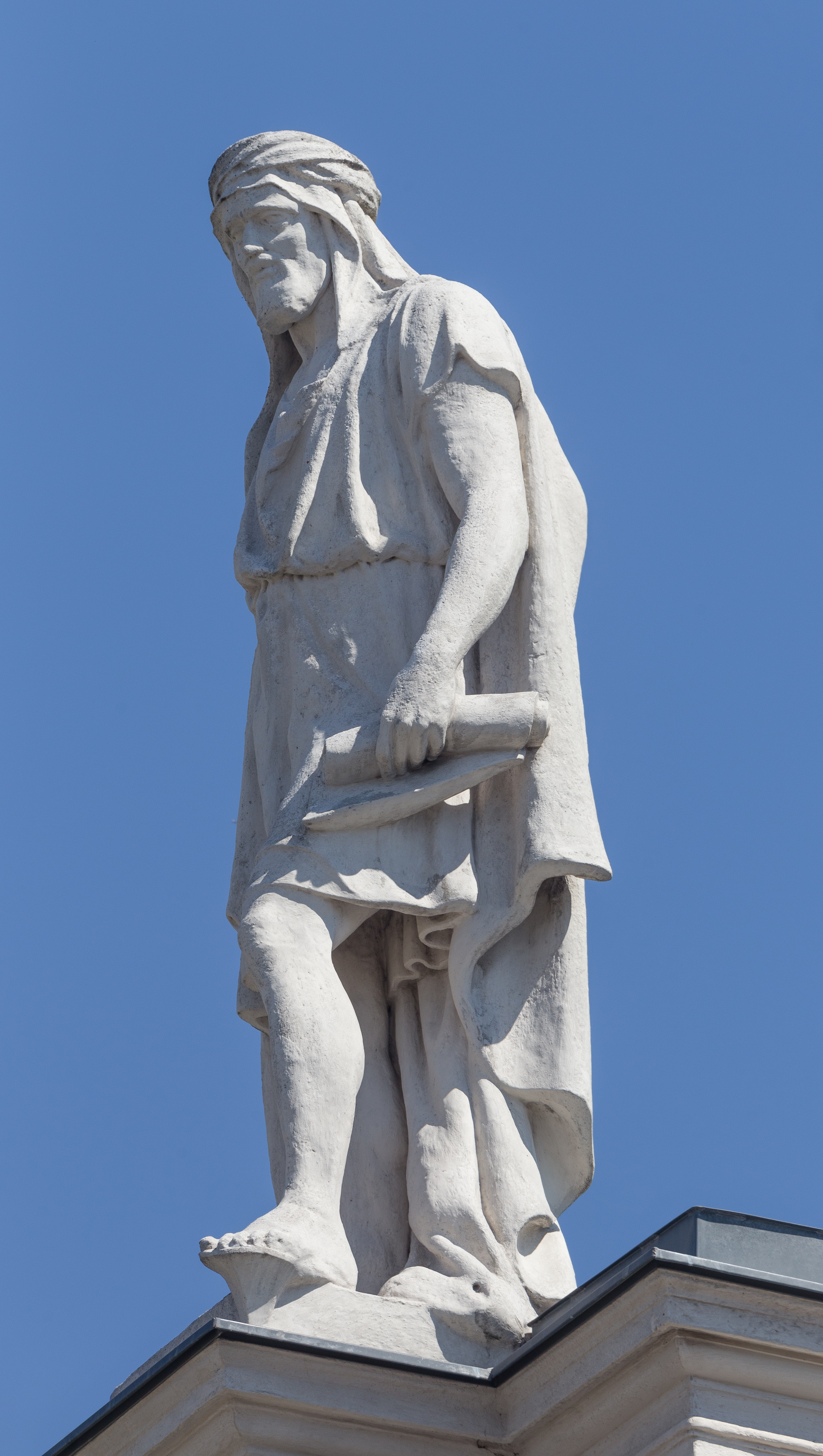 Roof figurer Al Masudi, Artist: Emmerich Alexius Swoboda, Naturhistorisches Museum, Vienna, Bellariastraße,Risalit at the right side